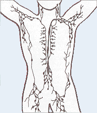 The lymphatic system, lymph vessels and lymph nodes.